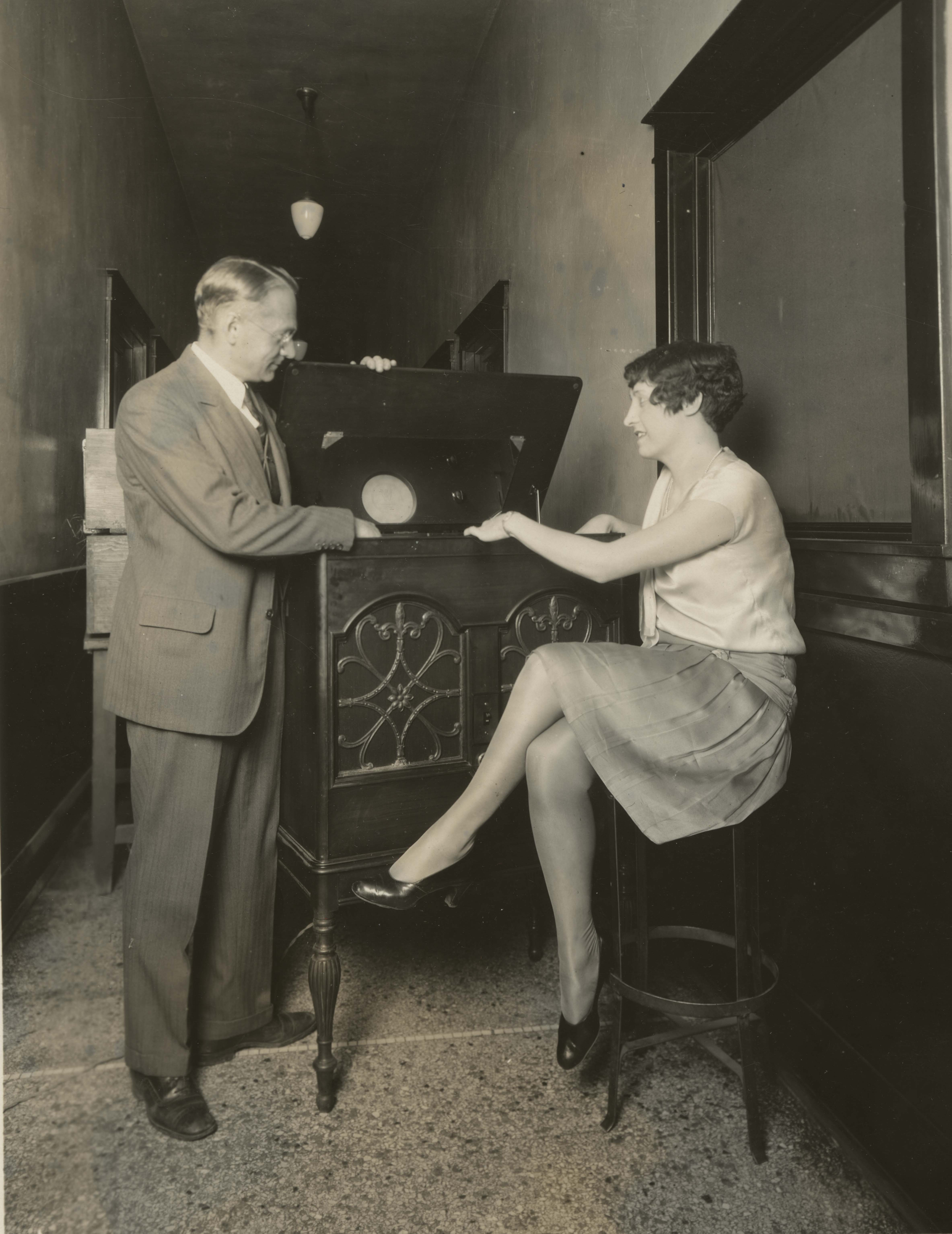 Subject: Zworykin, V. K (Vladimir Kosma) 1889-1982 Birt, Mildred Westinghouse Electric & Manufacturing Company Type: Black-and-white photographs Date: 1934 Topic: Television Local number: SIA Acc. 90-105 [SIA2010-1667] Summary: Vladimir Kosma Zworykin (1889-1982), a Westinghouse Electric and Manufacturing Company research engineer, is shown demonstrating his new cathode ray television set which can entertain large groups instead of one or two spectators. Miss Mildred Birt is the interested watcher. The broadcast images are projected on a mirror on the top of the cabinet making it possible for many to watch Cite as: Acc. 90-105 - Science Service, Records, 1920s-1970s, Smithsonian Institution Archives Persistent URL: Repository:Smithsonian Institution Archives View more collections from the Smithsonian Institution.